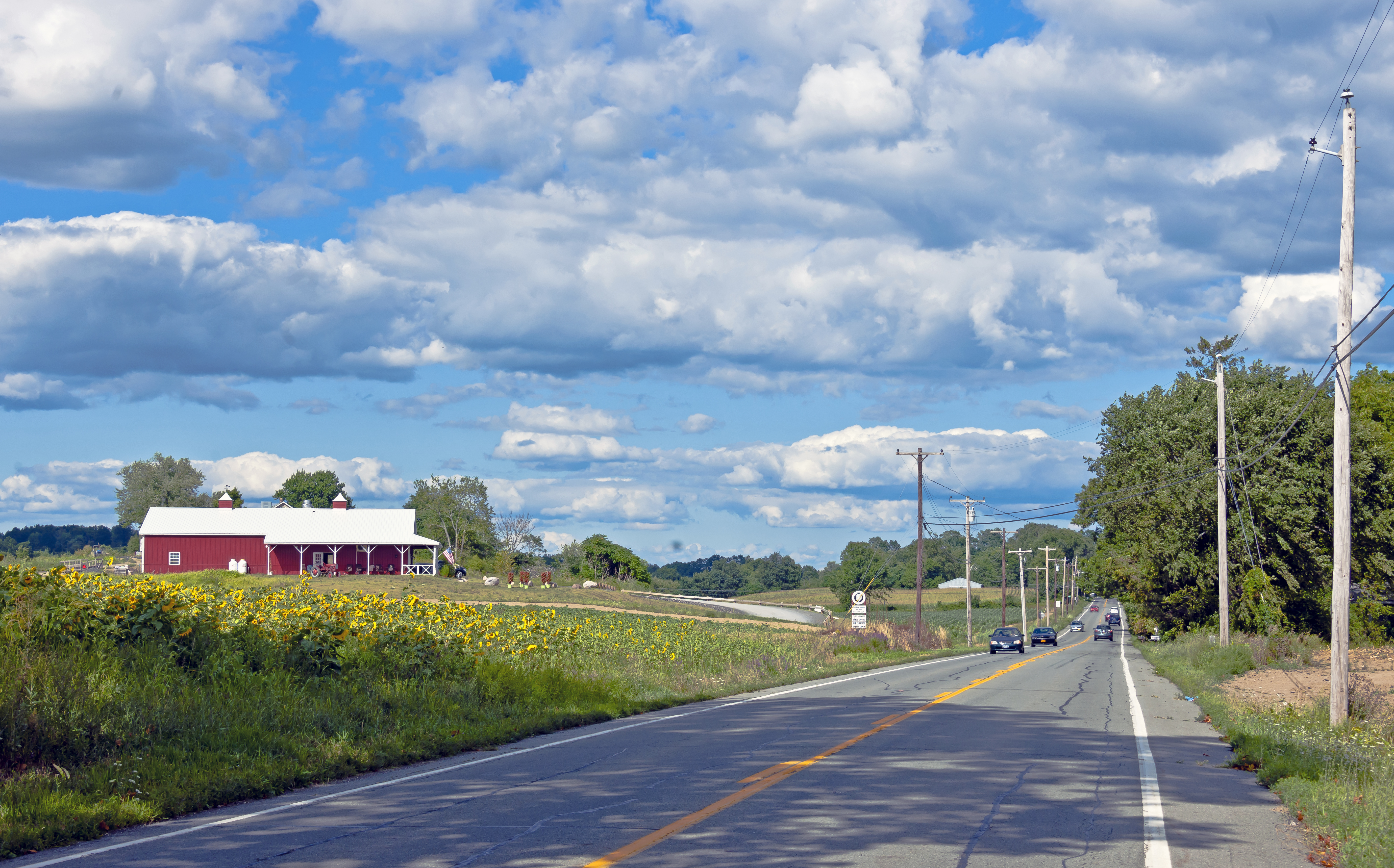 Looking east on NY 211 in the Town of Wallkill, NY, USA, at Sycamore Farms. Compare with same area seven years earlier.